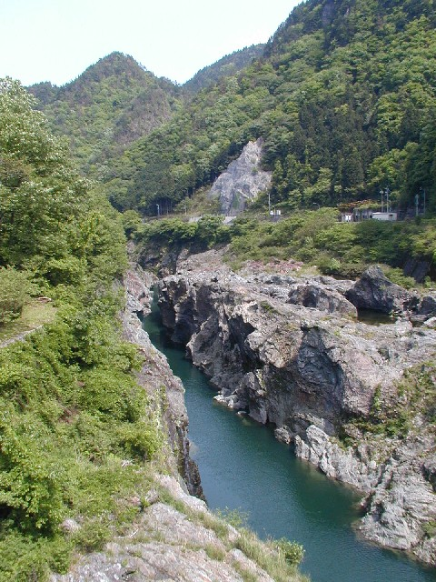 Japan: Hisui canyon in Hichisō (Gifu prefecture).